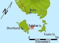 Location of Balalae Island, Shortland Islands, south of Bougainville